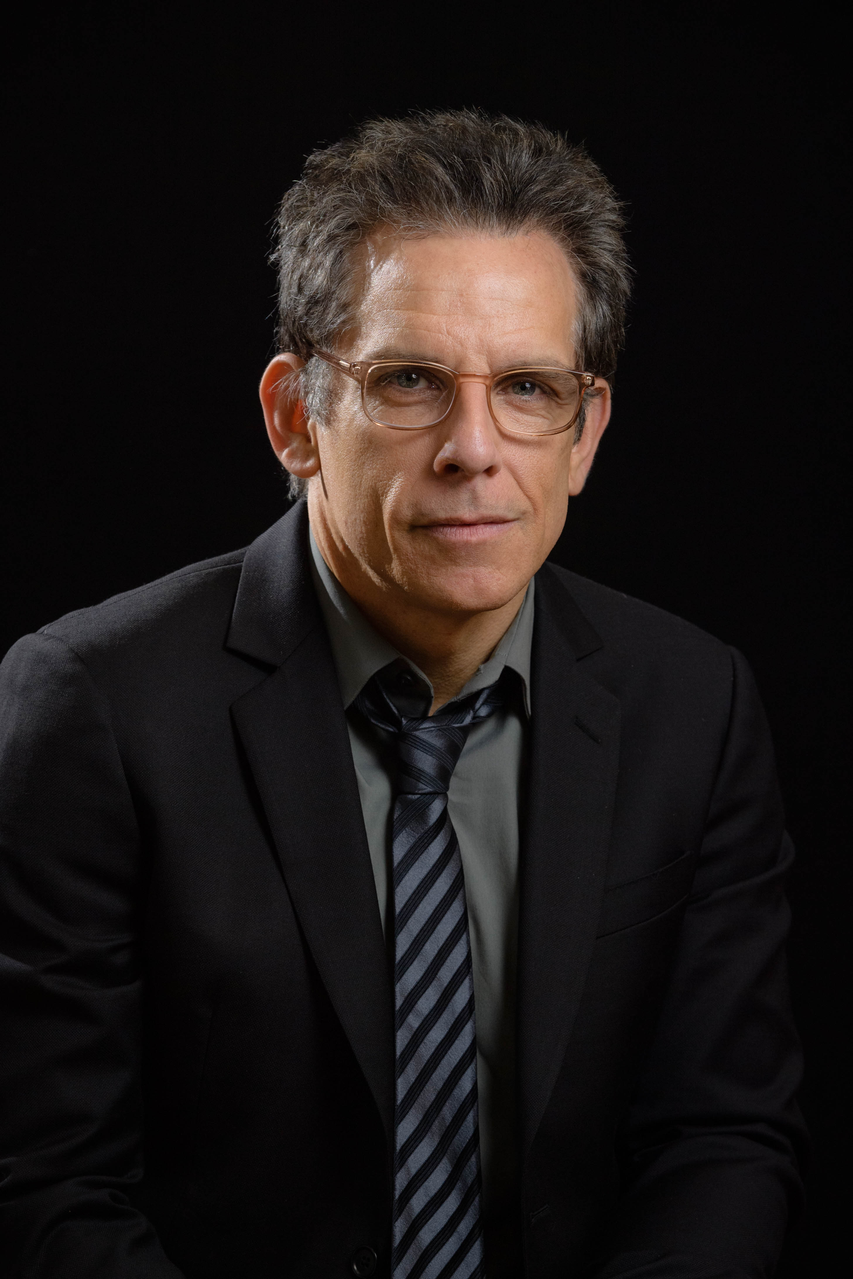 Photography by Neil Grabowsky